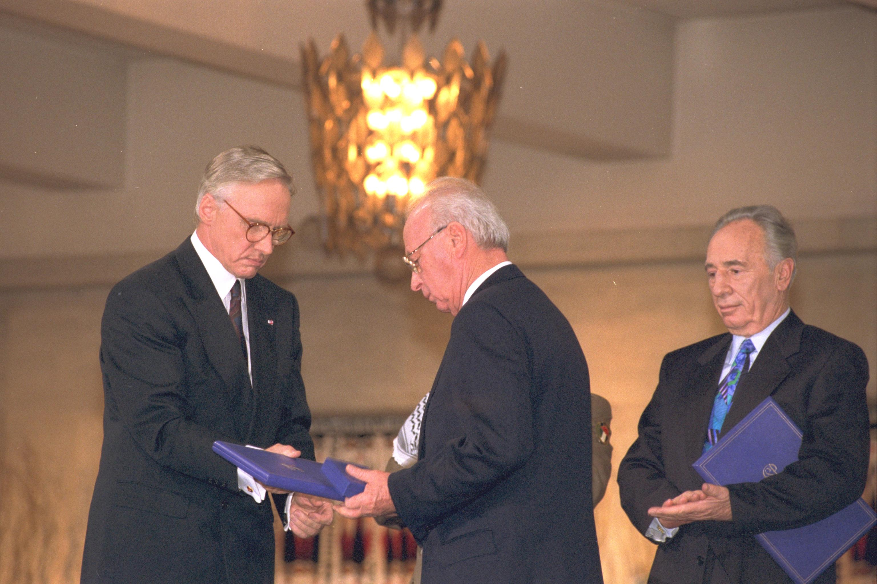 Prime Minister Yitzhak Rabin receives the Nobel Peace Prize as Foreign Minister Shimon Peres applauds. ראש הממשלה יצחק רבין מקבל את פרס נובל לשלום לשנת 1994 באוסלו שבנורבגיה. מימין שר החוץ שמעון פרס. Photo: Yaakov Saar (1951–) Alternative names SA'AR YA'ACOV; Jacob Saar; Saʻar, YaʻaḳovDescriptionIsraeli photographerDate of birth 1951 Authority control : Q28751896 VIAF: 298161188 NLI: 001394176 creator QS:P170,Q28751896 , 12/10/1994